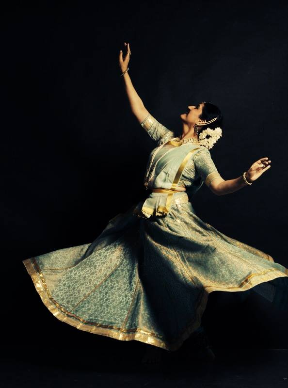 Picture taken for solo concert on 1st September, at Mahaveer School Auditorium, Jaipur.